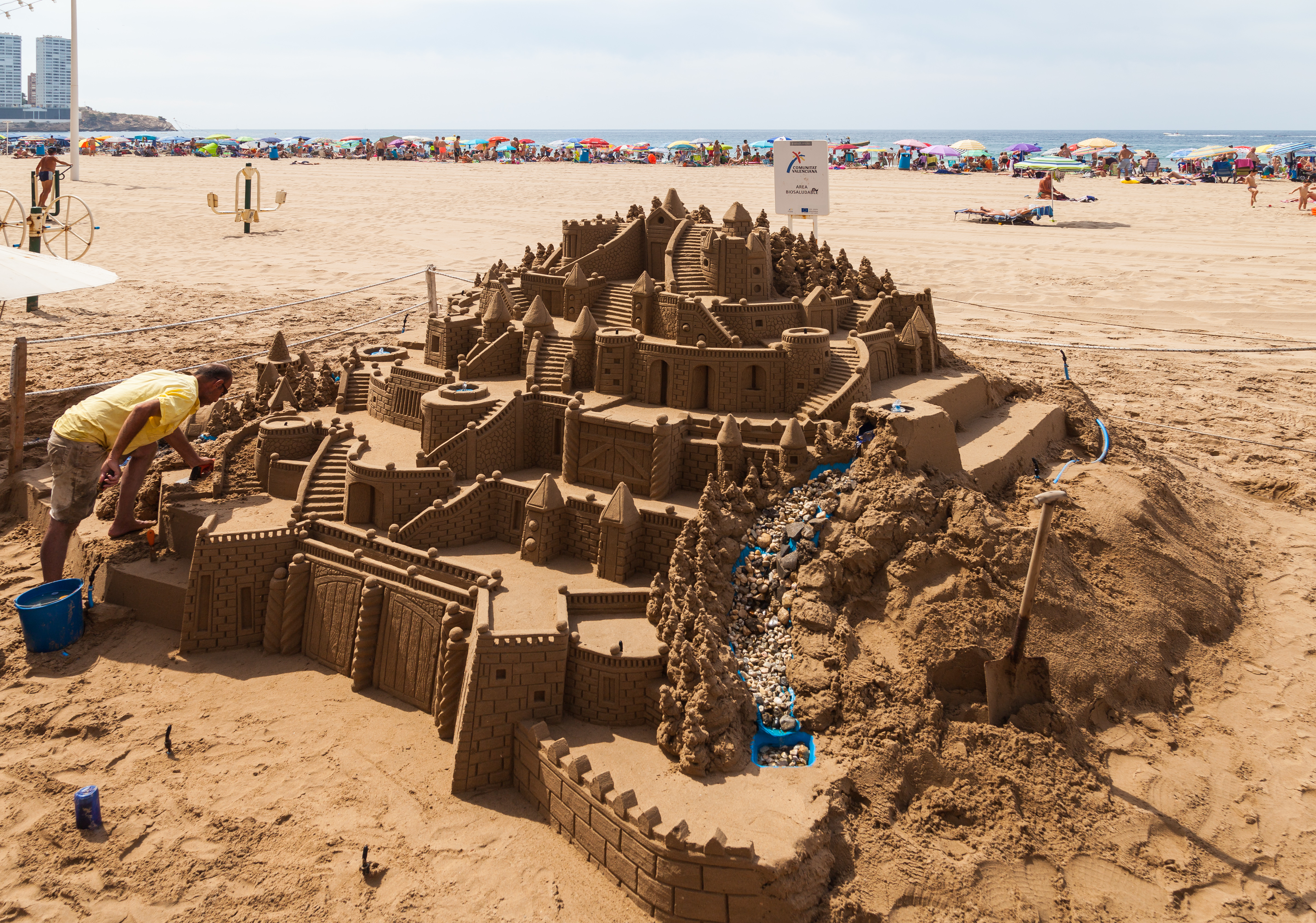 Levante beach, Benidorm, Spain